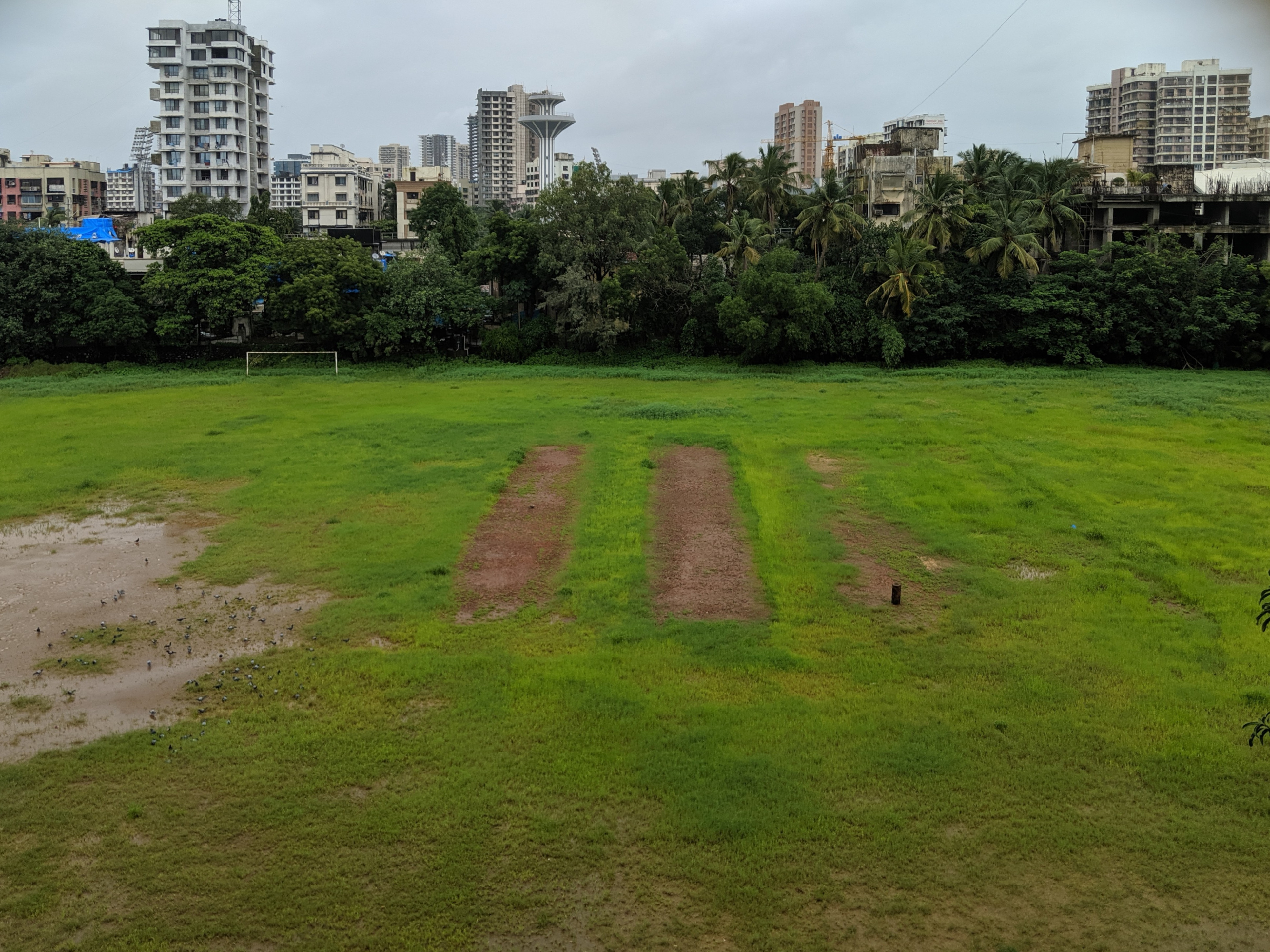 The main ground behind the campus buildings